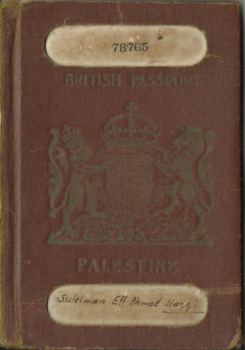 The front cover of a Mandatory Palestine passport.